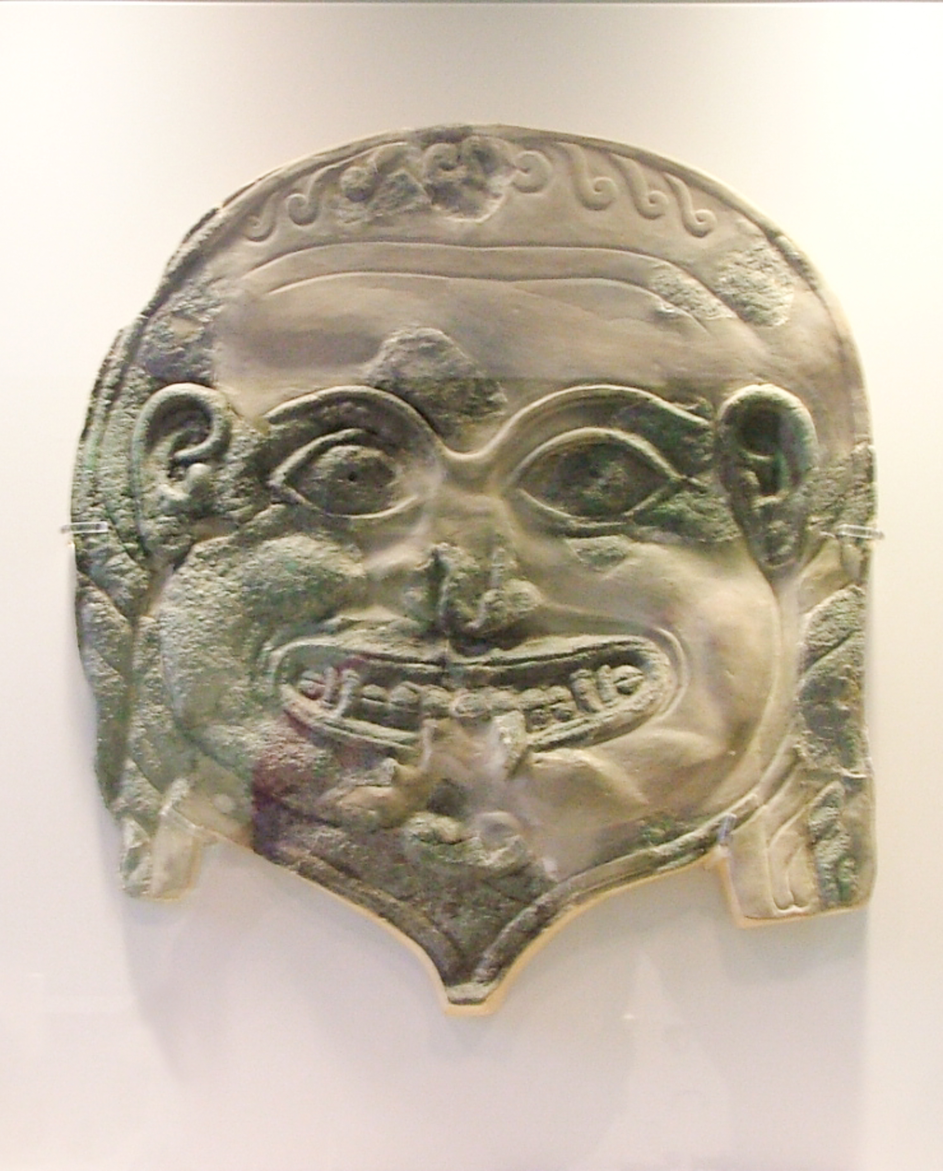 Gorgoneion or Gorgon's head. Attachment or device from the sanctuary of Athena Chalkioikos in Sparta. National Archaeological Museum of Athens, inv. Καρ. 15917